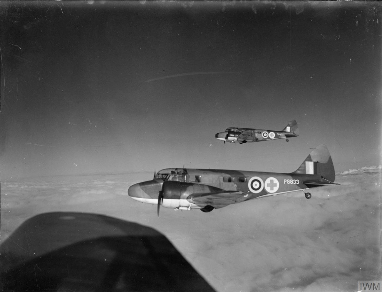 Aircraft of the Royal Air Force 1939-1945- Airspeed As 10 Oxford. Two Oxford Mark IIs, P 8833 and P8832, of the Air Ambulance Unit (operating within No. 24 Squadron RAF), based at Hendon, Middlesex, in flight.